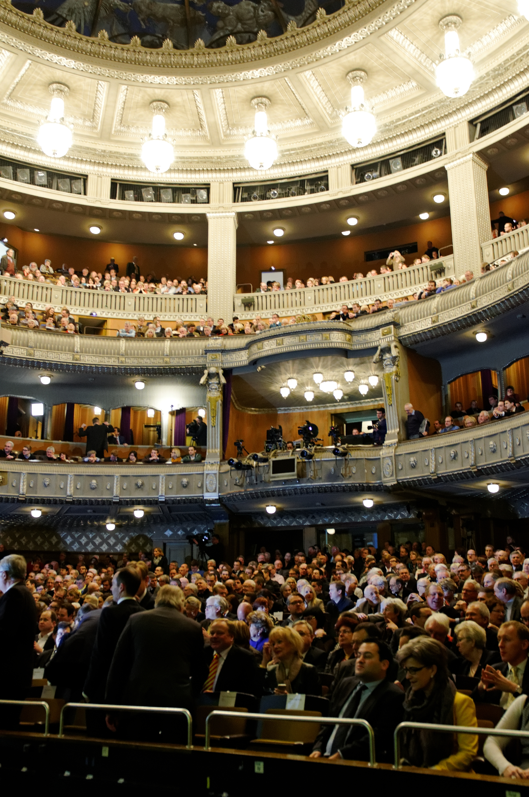 Series: Liberals' Epiphany rally hosted by the FDP Baden-Württemberg in the opera house of Stuttgart on January 6, 2015